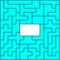 hexomino 15x15 with 3x5 hole at center